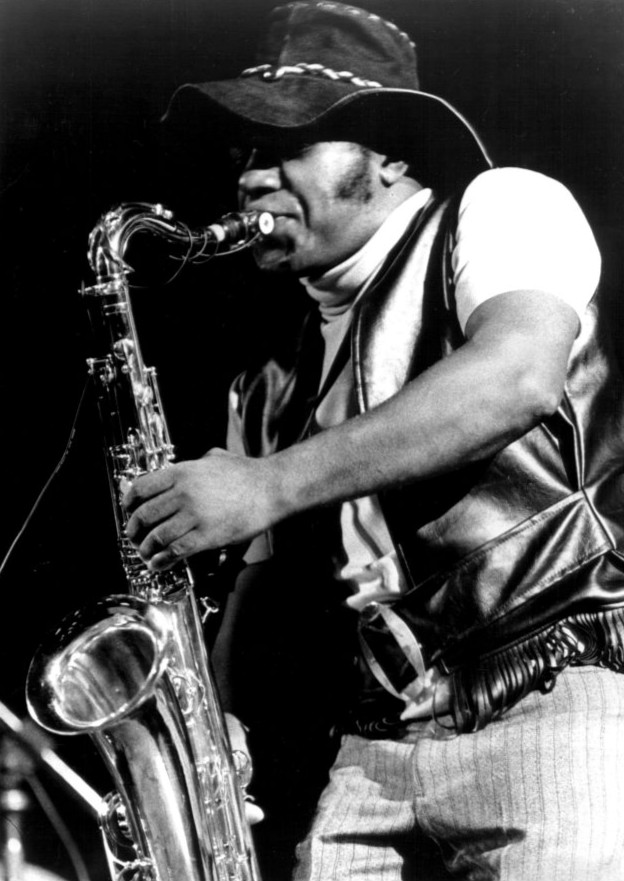 Photo of musician Eddie Harris.